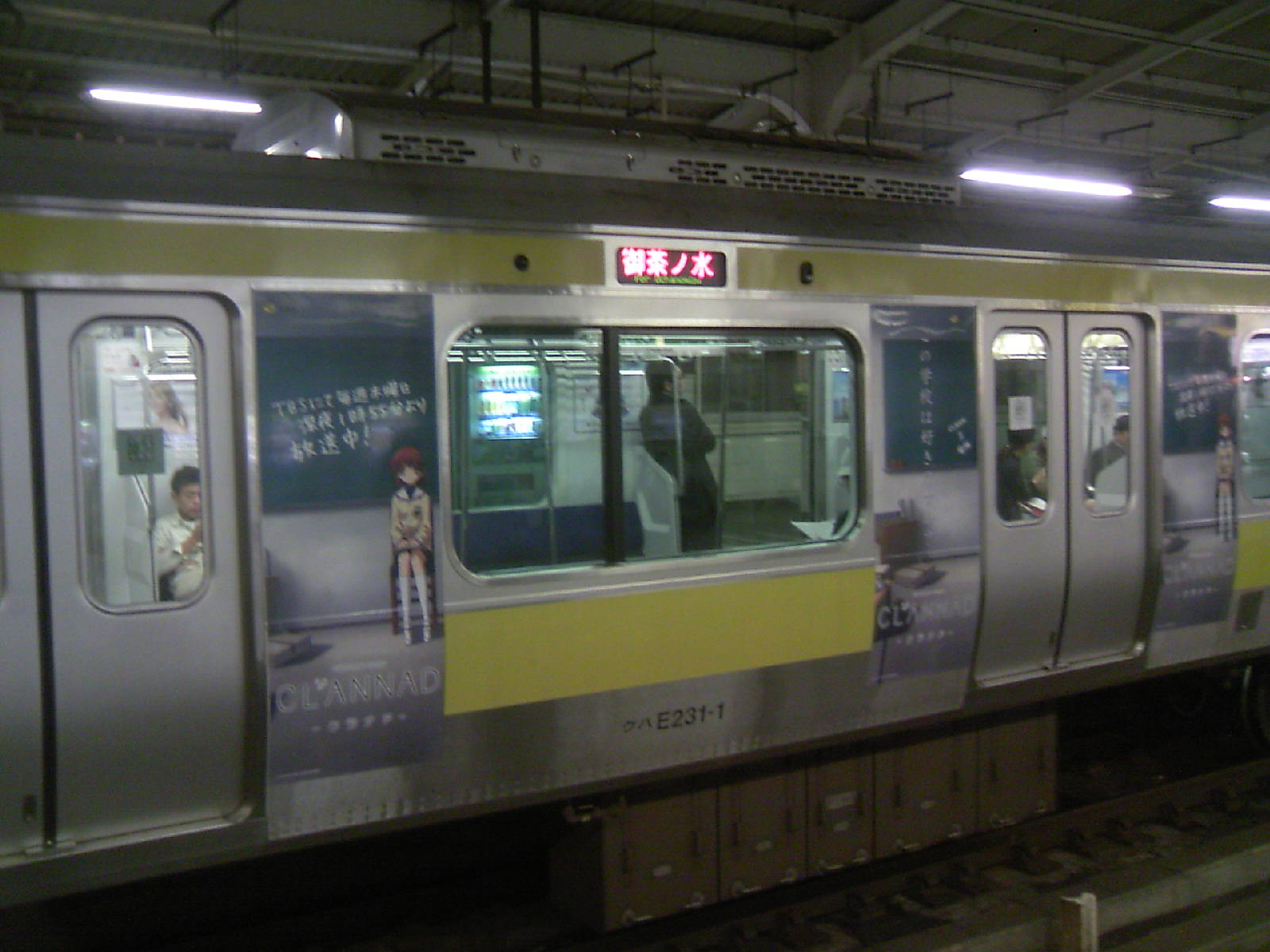 Nagisa Furukawa models on the train from the Chūō-Sōbu Line of Tokyo at the Ochanomizu Station